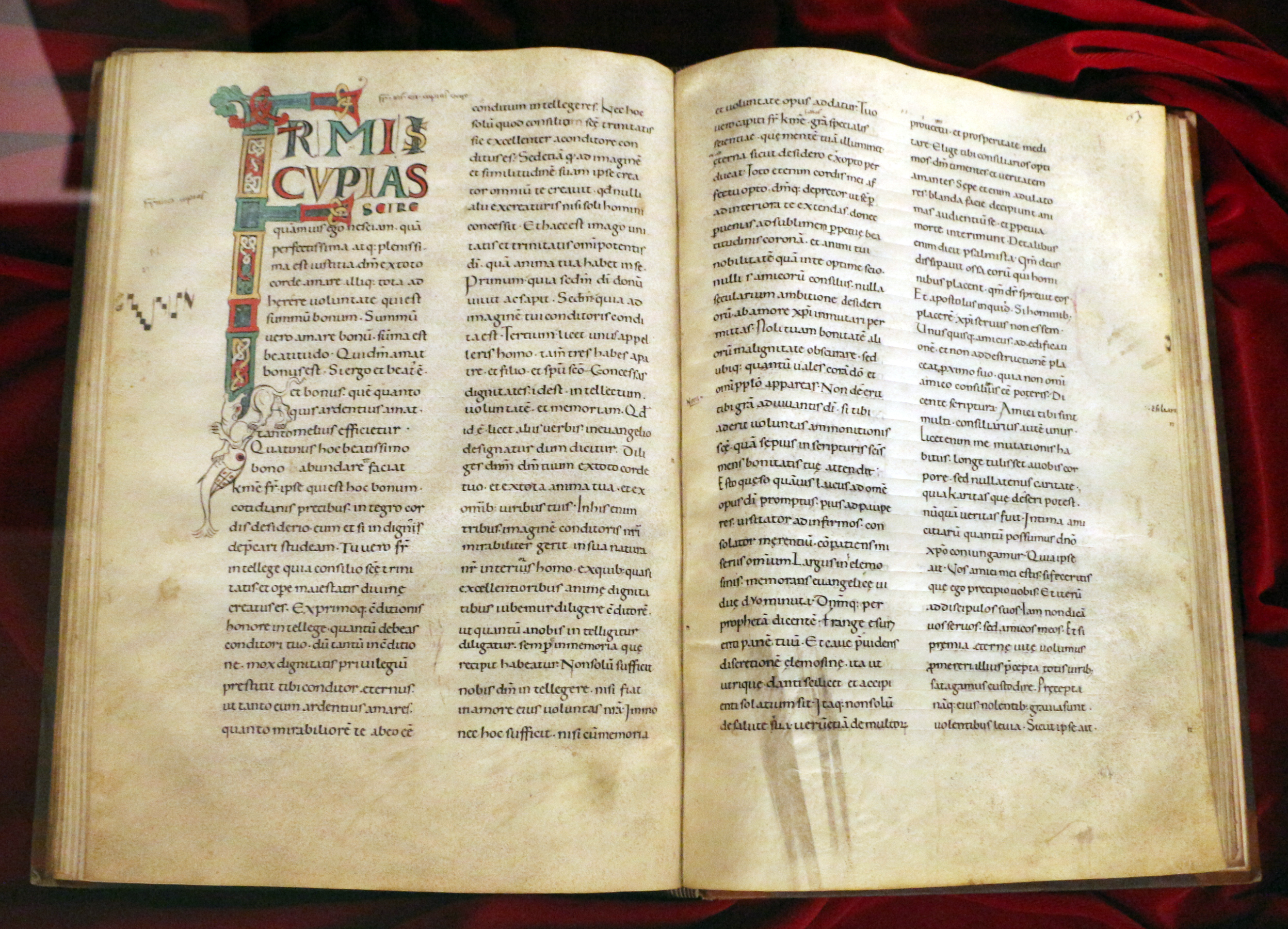 Biblioteca Medicea Laurenziana manuscripts